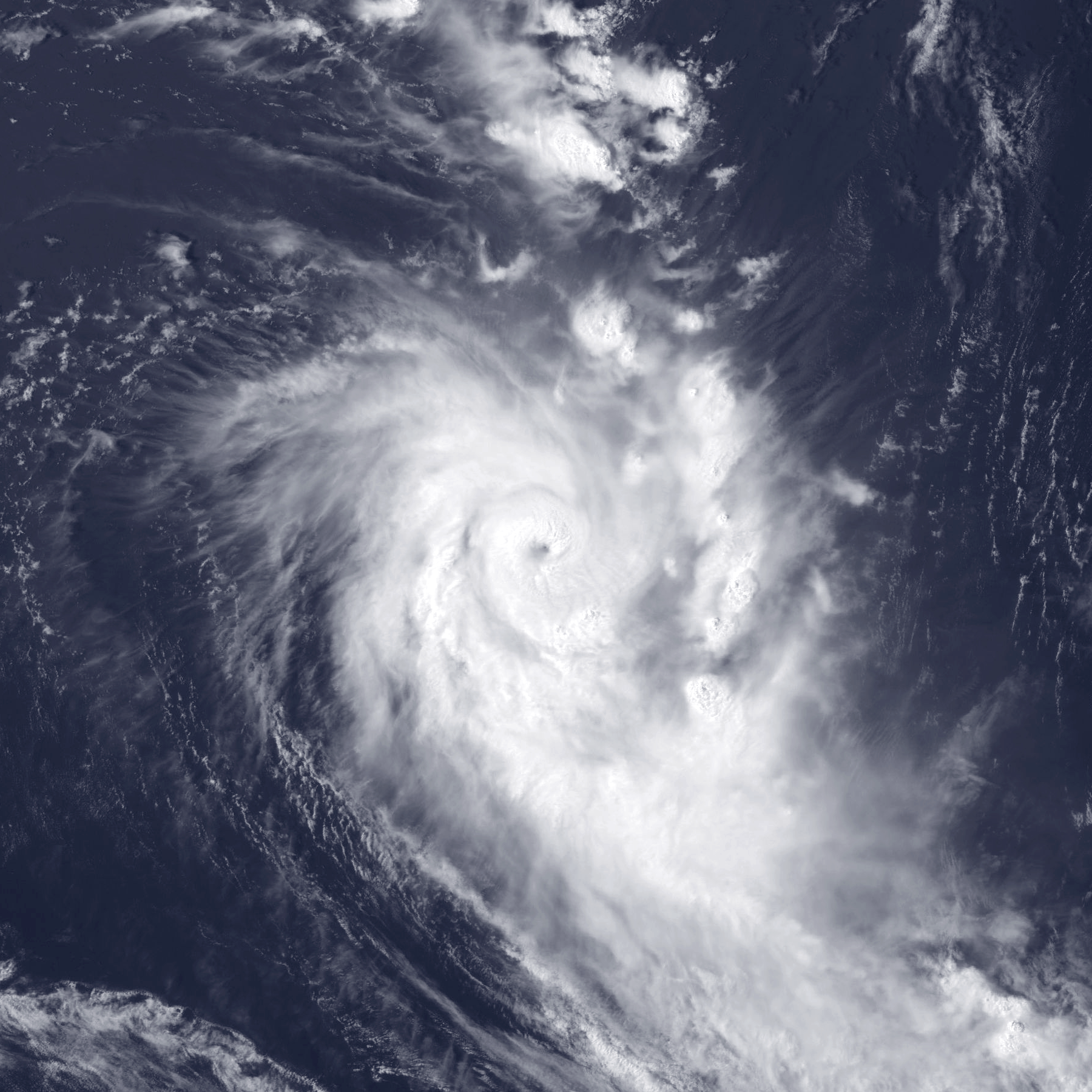 Cyclone Martin near peak intensity in the South Pacific Ocean on November 3, 1997